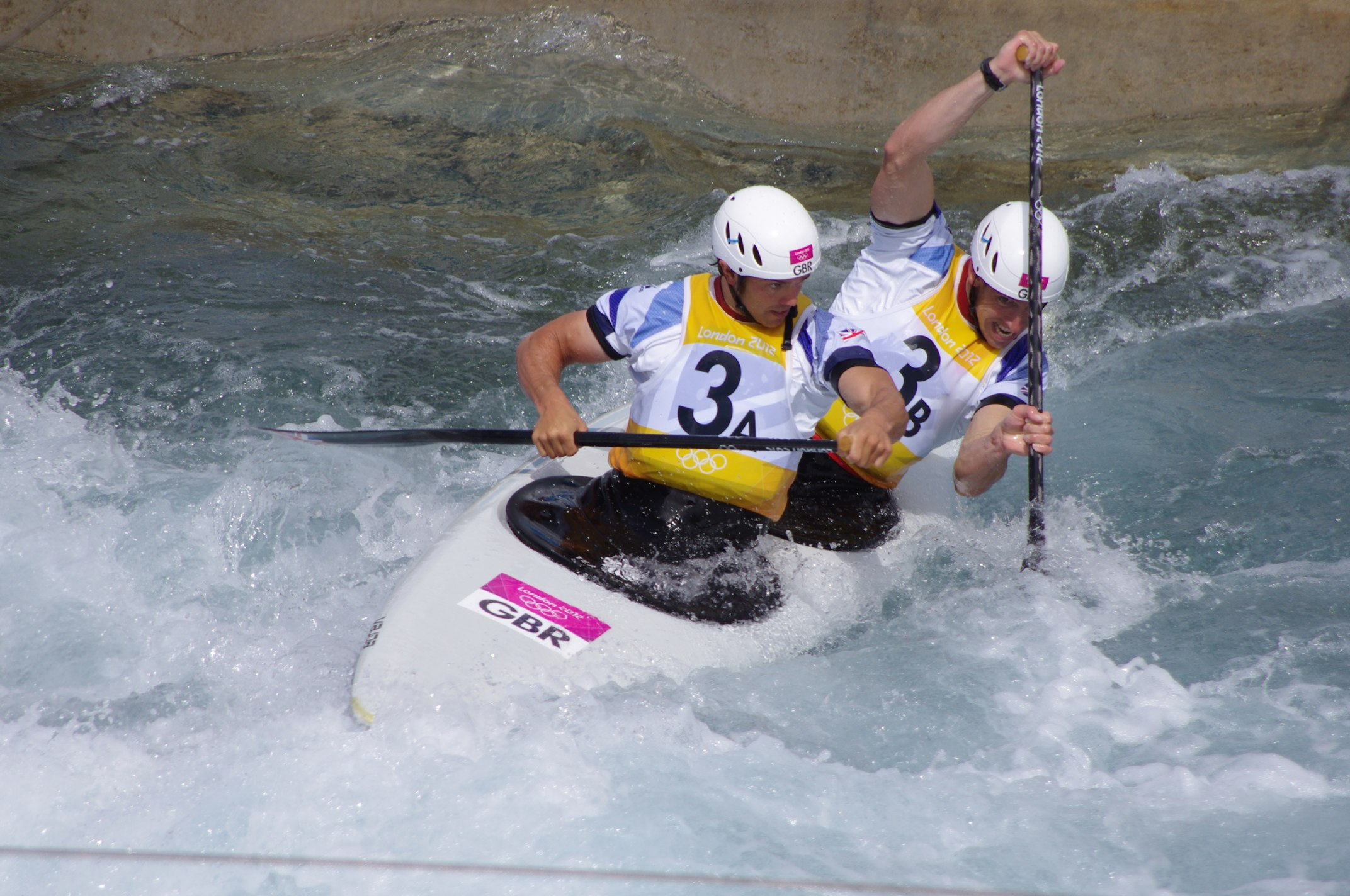 Canoeing at the 2012 Summer Olympics – Men's slalom C-2 Timothy Baillie (3A) and Etienne Stott (3B) (GBR)